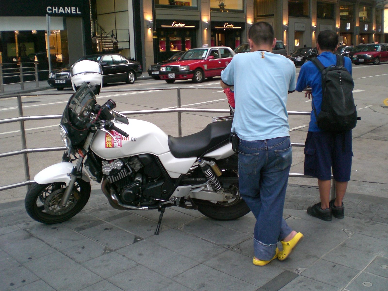 Chater Road, Central, Hong Kong, 東方日報, 中環遮打道 Author= SHOLYWOD